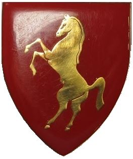 SADF era Carolina Commando emblem